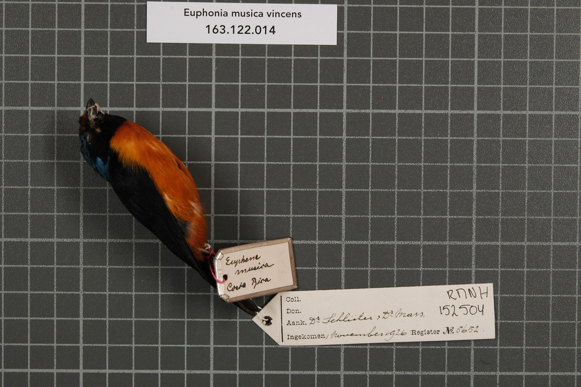 Euphonia musica vincens Hartert, 1913